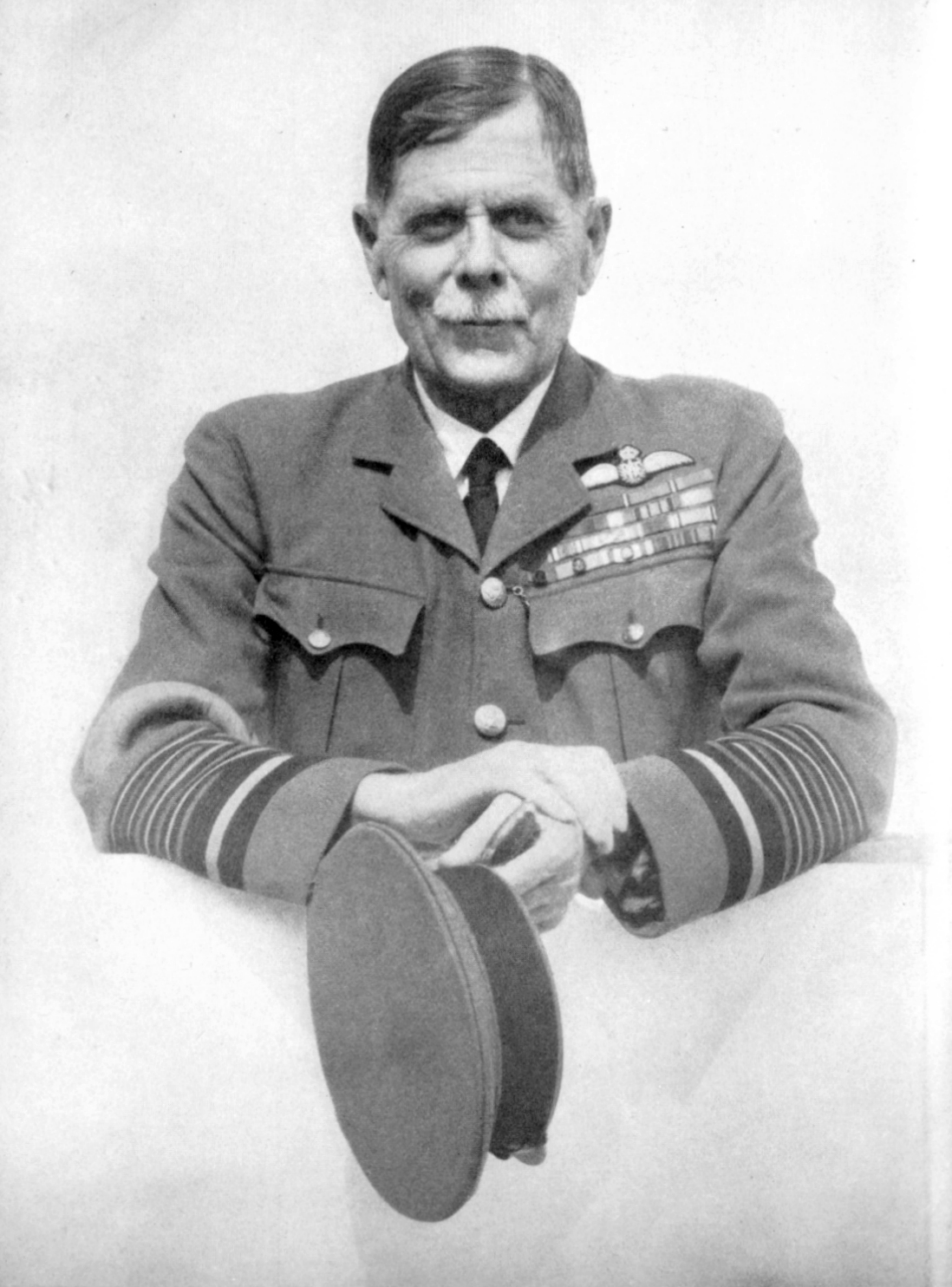 Digital image of a signed photograph of Marshal of the Royal Air Force Sir Hugh Trenchard in the Western Desert on a visit to an RAF establishment